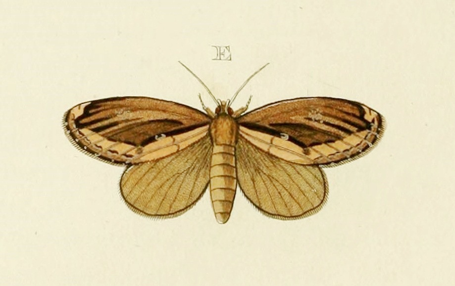 Tifama Chera in Volume 4 of "De uitlandsche kapellen: voorkomende in de drie waereld-deelen Asia, Africa en America = Papillons exotiques des trois parties du monde, l'Asie, l'Afrique et l'Amérique